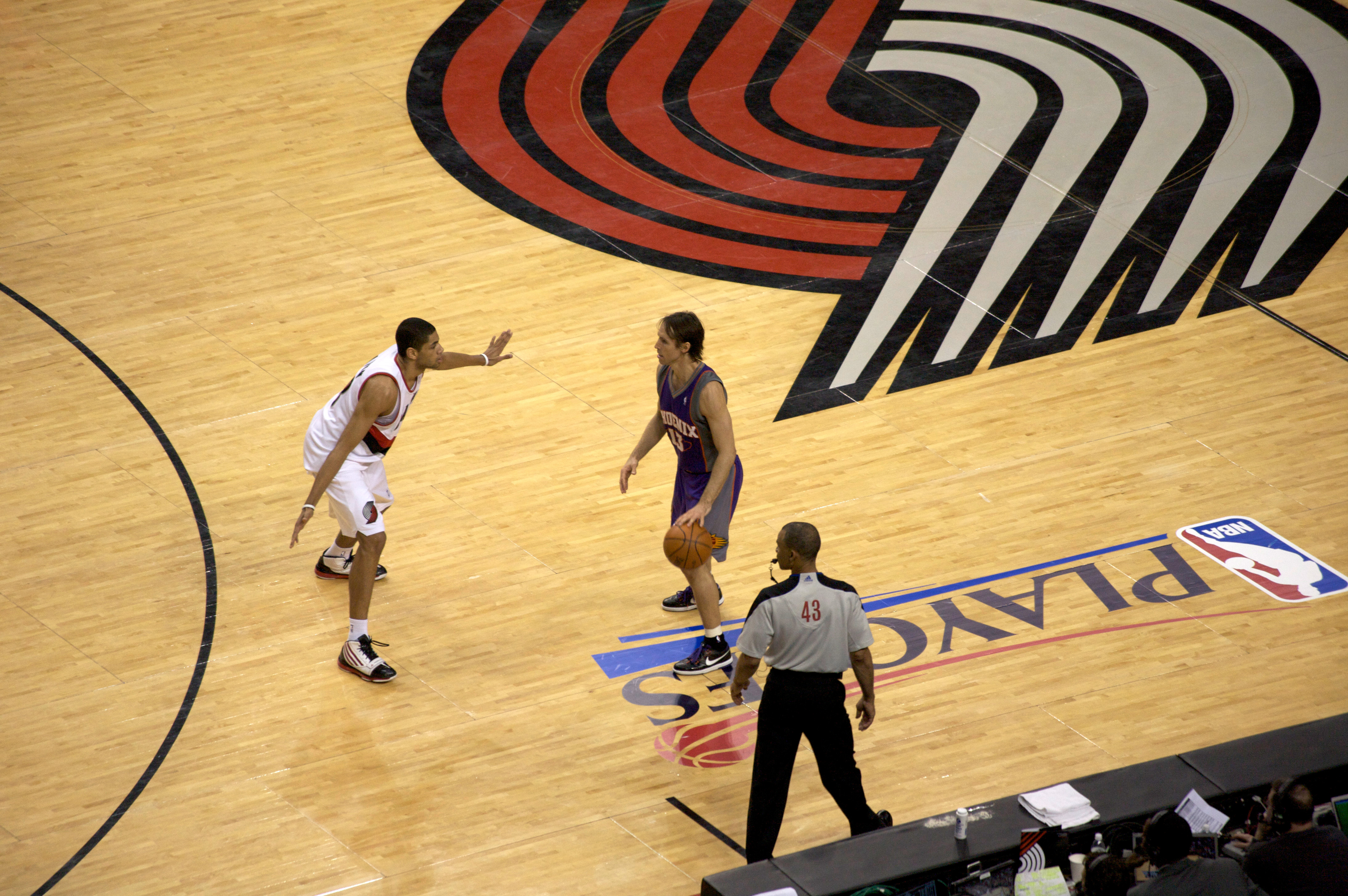 Nicolas Batum (Portland Trail Blazers) guards Steve Nash (Phoenix Suns) on Game 6 of the first-round Blazers/Suns series in 2010.